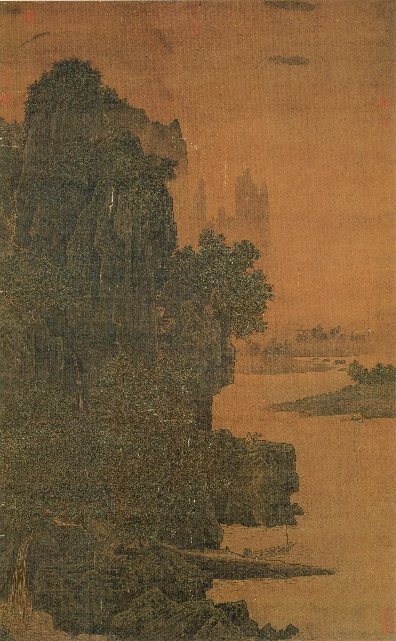 A Tower on the Halfway of A Mountain